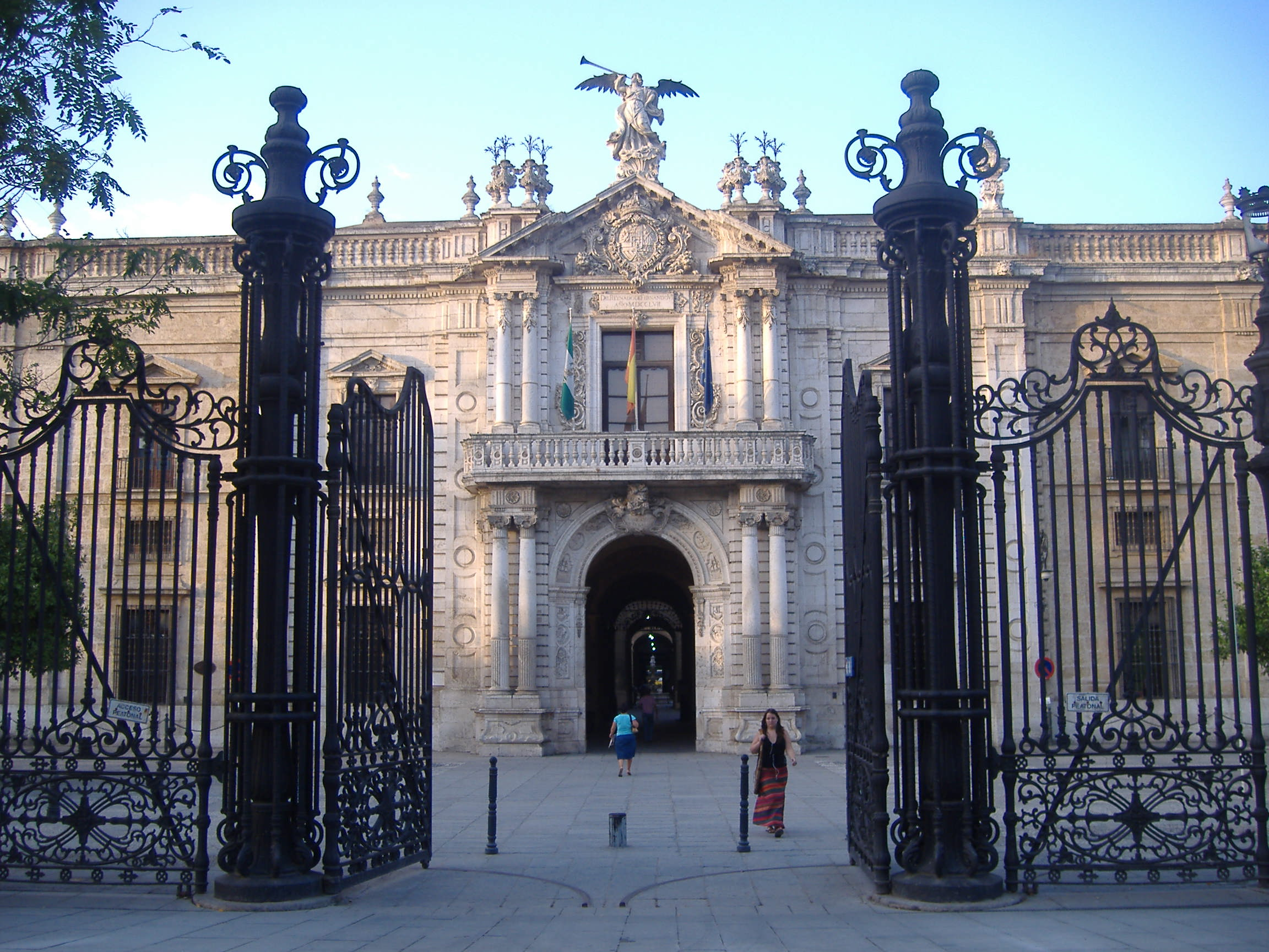 Main door of the Royal Tobacco Factory at Seville, Spain